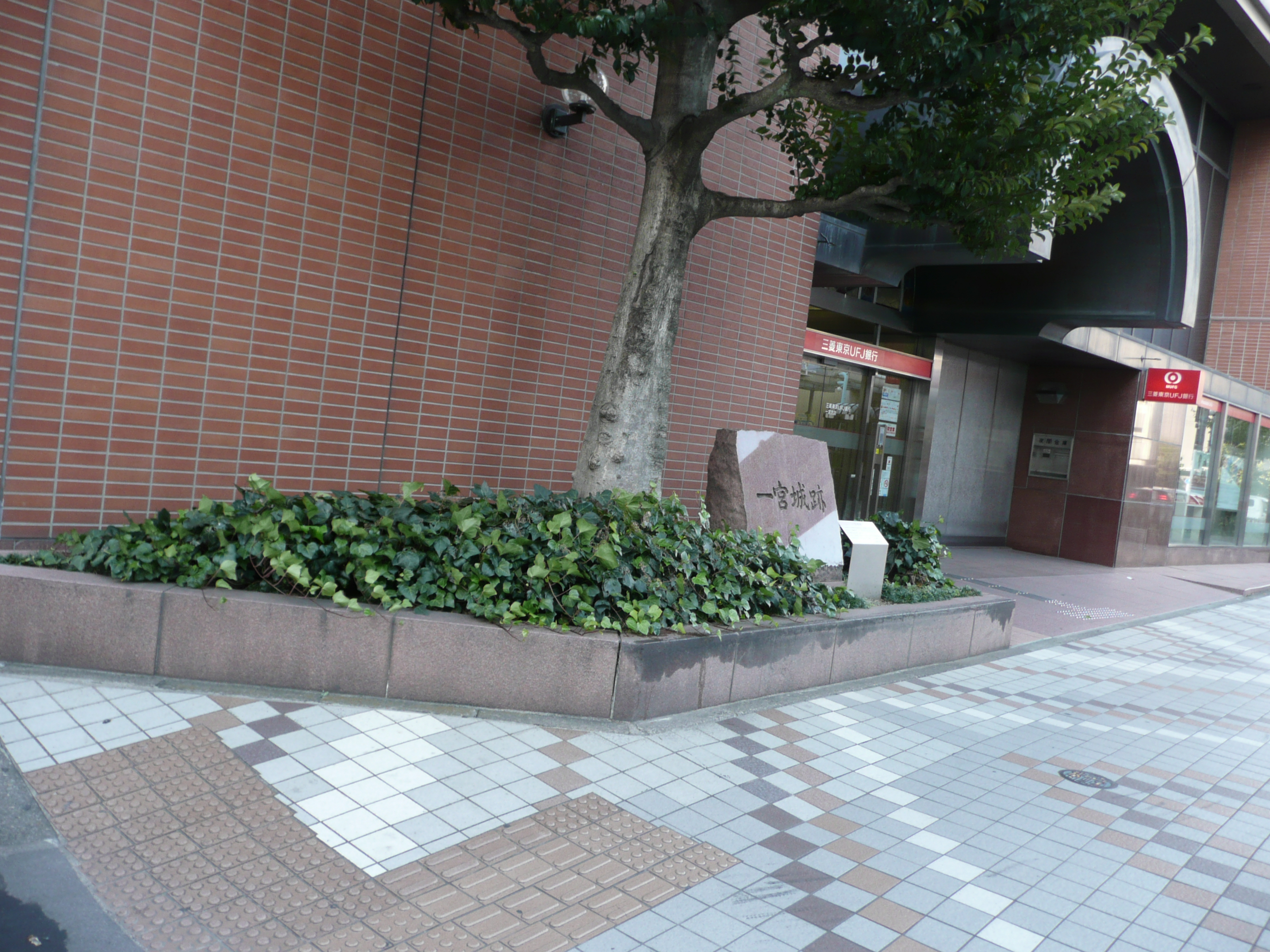 一宮城の石碑